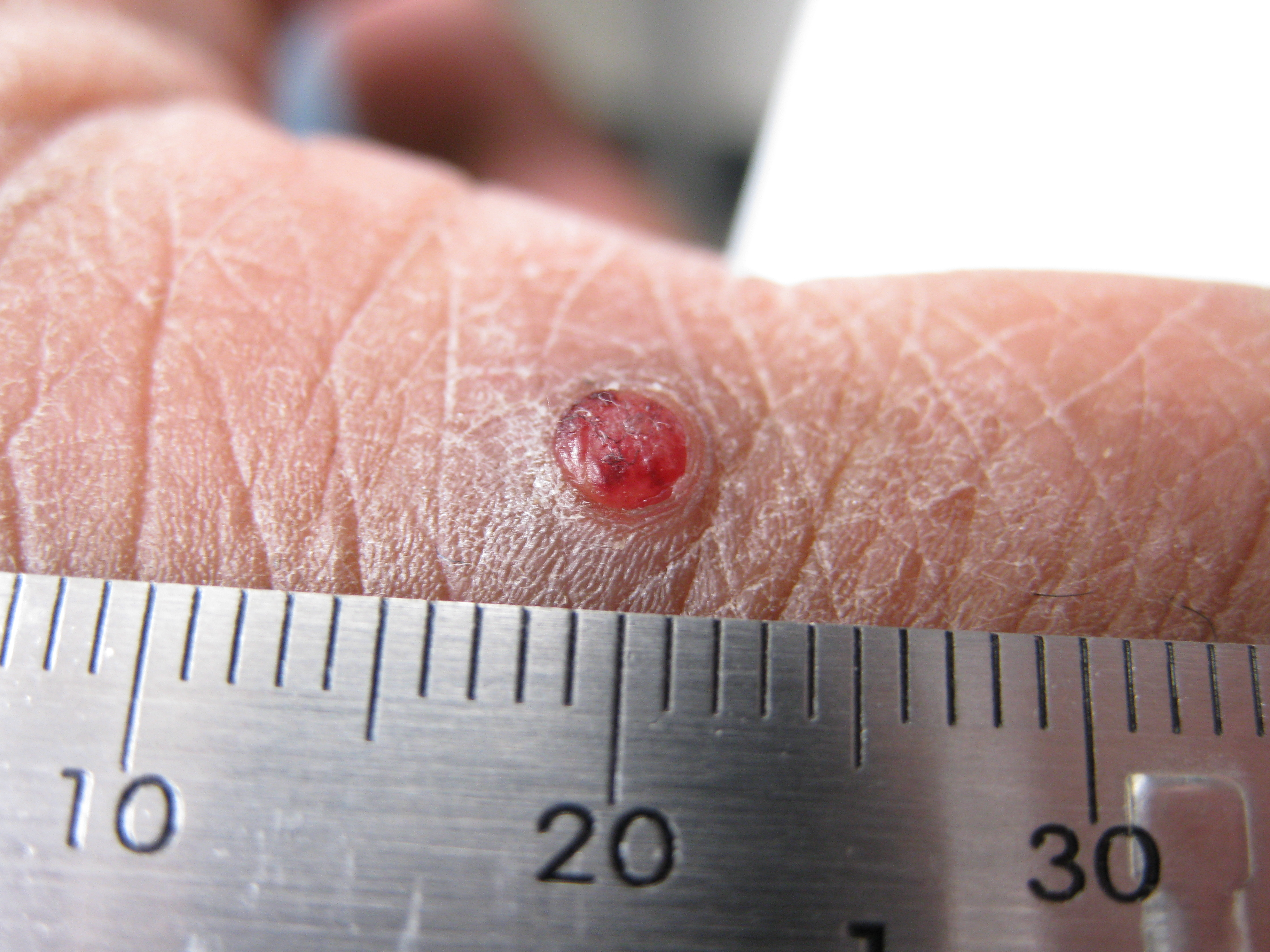 A pyogenic granuloma situated on the dorsal surface of an index finger. It is a solitary papule of inflamed vascular granulation tissue. Pyogenic granulomas can grow over a few weeks from a break in the skin - after a cut or deep graze. They generally occur on the fingers, lips, mouth, trunk, and toes. On the palms and soles they have a typical collar of thickened stratum corneum at the base, which is evident here. These lesions are fragile and tend to bleed after minor trauma. They have variable appearances - they may have a smooth surface or may be covered with a crust or exudate; they may appear bright red, dusky red, violaceous, or brown black in color. After treatment to disrupt the growing granulation tissue they can be expected to heal after 1-3 weeks depending on their initial size. The ruler has hash marks at millimeter intervals.